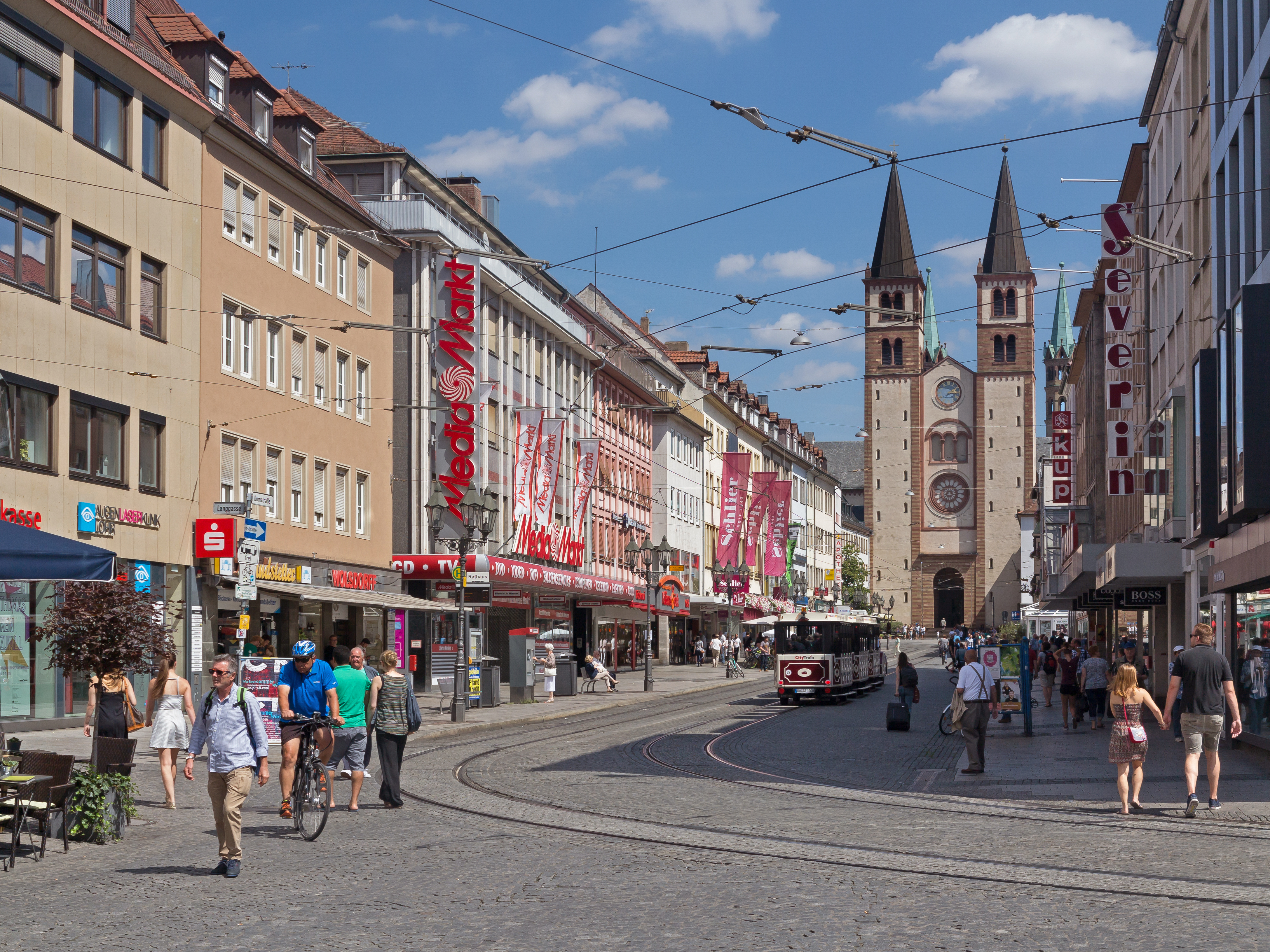 Würzburg, church: der Sankt-Kilians-DomThis is a photograph of an architectural monument.